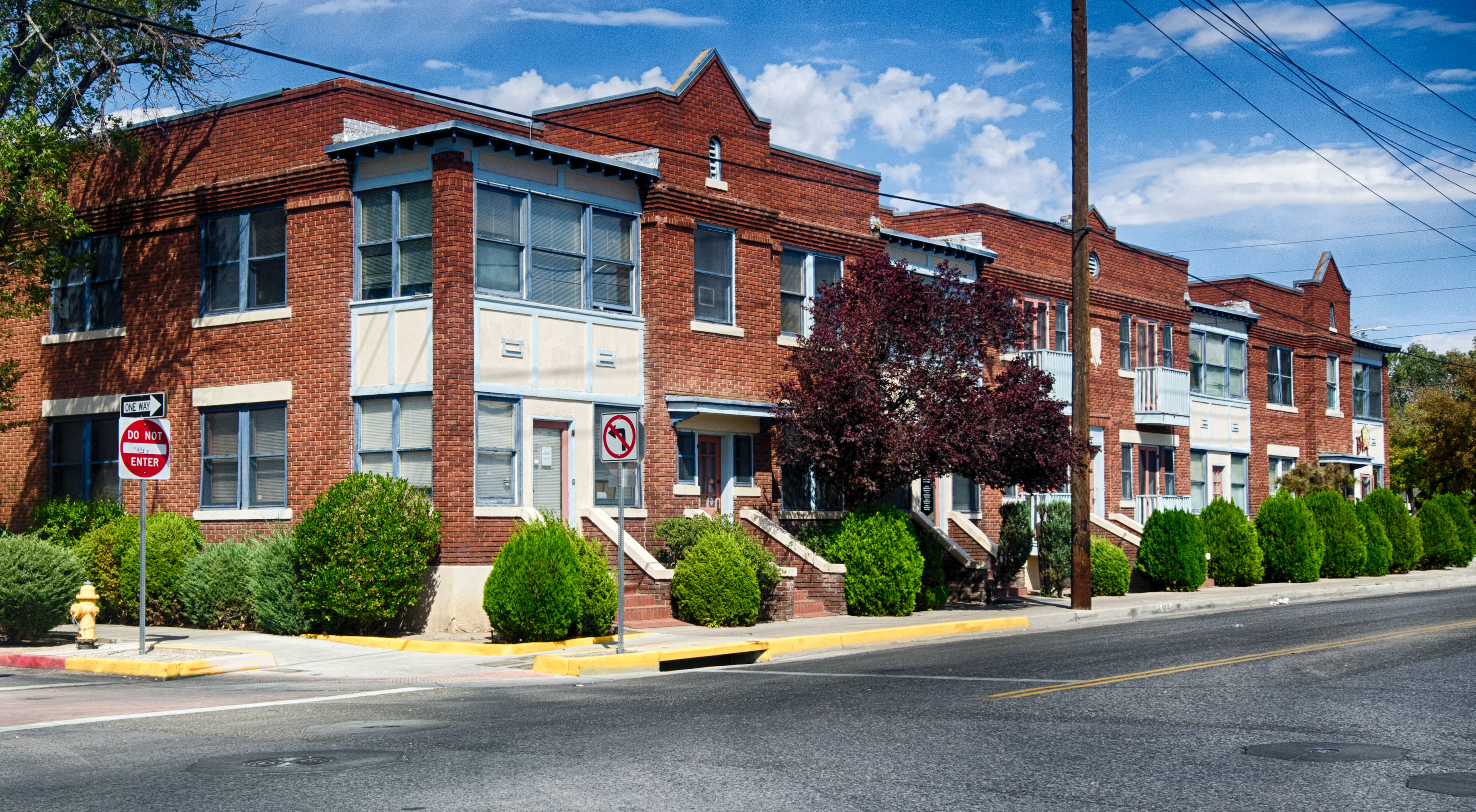 The Eller Apartments located at 113-127 8th Street SW near downtown Albuquerque are still being used. There is a used book store in one unit and a law firm in another.